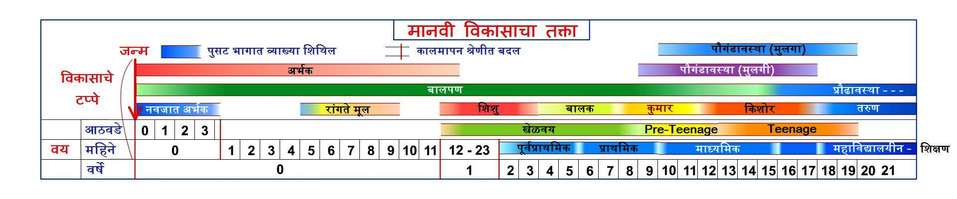 Simplified Human Development Chart, from Birth to Young Adulthood, in Marathi. The stages of development are according to accepted definitions. But both the ends are faded and open (except Birth) and there is considerable overlapping. Some stages (e.g. 'Teenage') are according to common usage while educational stages are according to educational curriculum prevalent in Maharashtra,India.